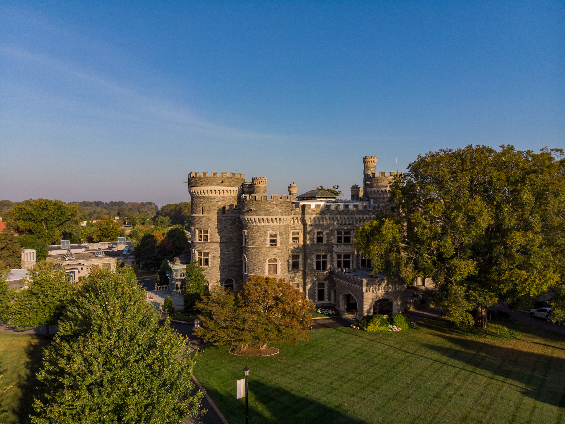 Drone photo of Arcadia University's Grey Towers Castle.